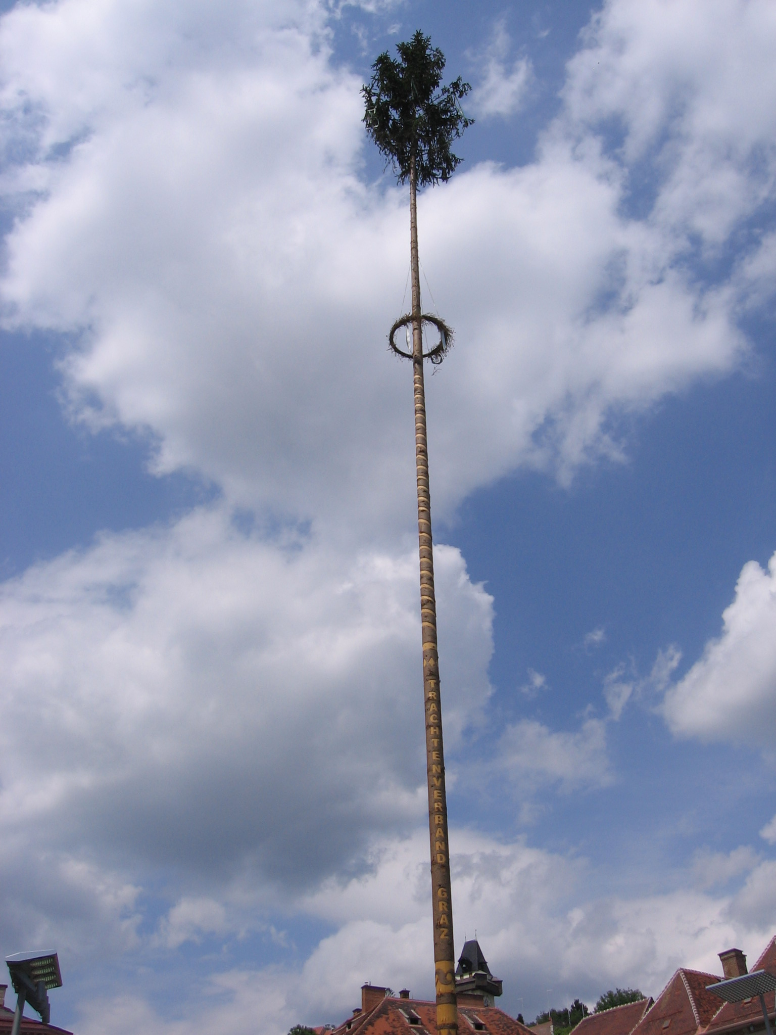 a maypole in Graz, Austria